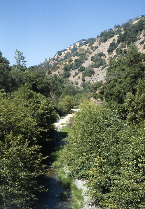 Photo of Arroyo Hondo, tributary to Calaveras Reservoir/Calaveras Creek in the Alameda Creek watershed.